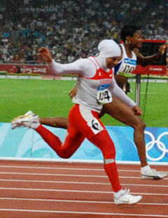 women's 200 meters semi-final at the bird's nest, Beijing, august 20th 2008. Roqaya Al-Gassra